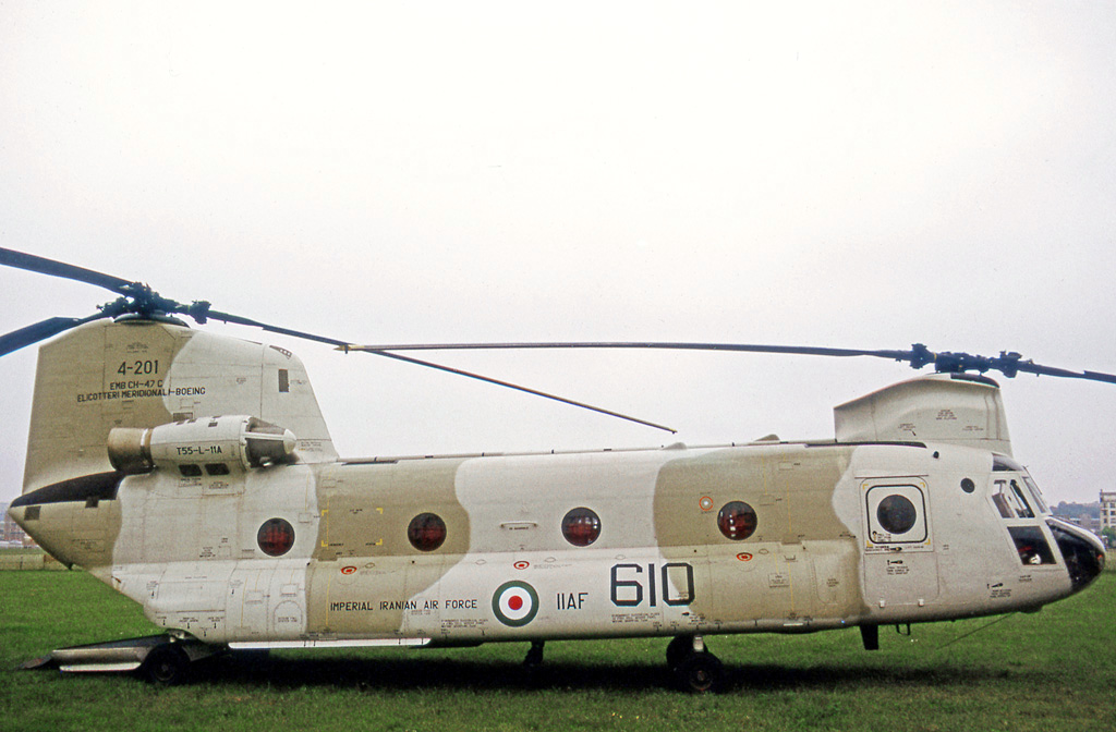 Boeing-Vertol CH-47C Chinook 4-201 of the Imperial Iranian Air Force at Paris Issy heliport in 1971